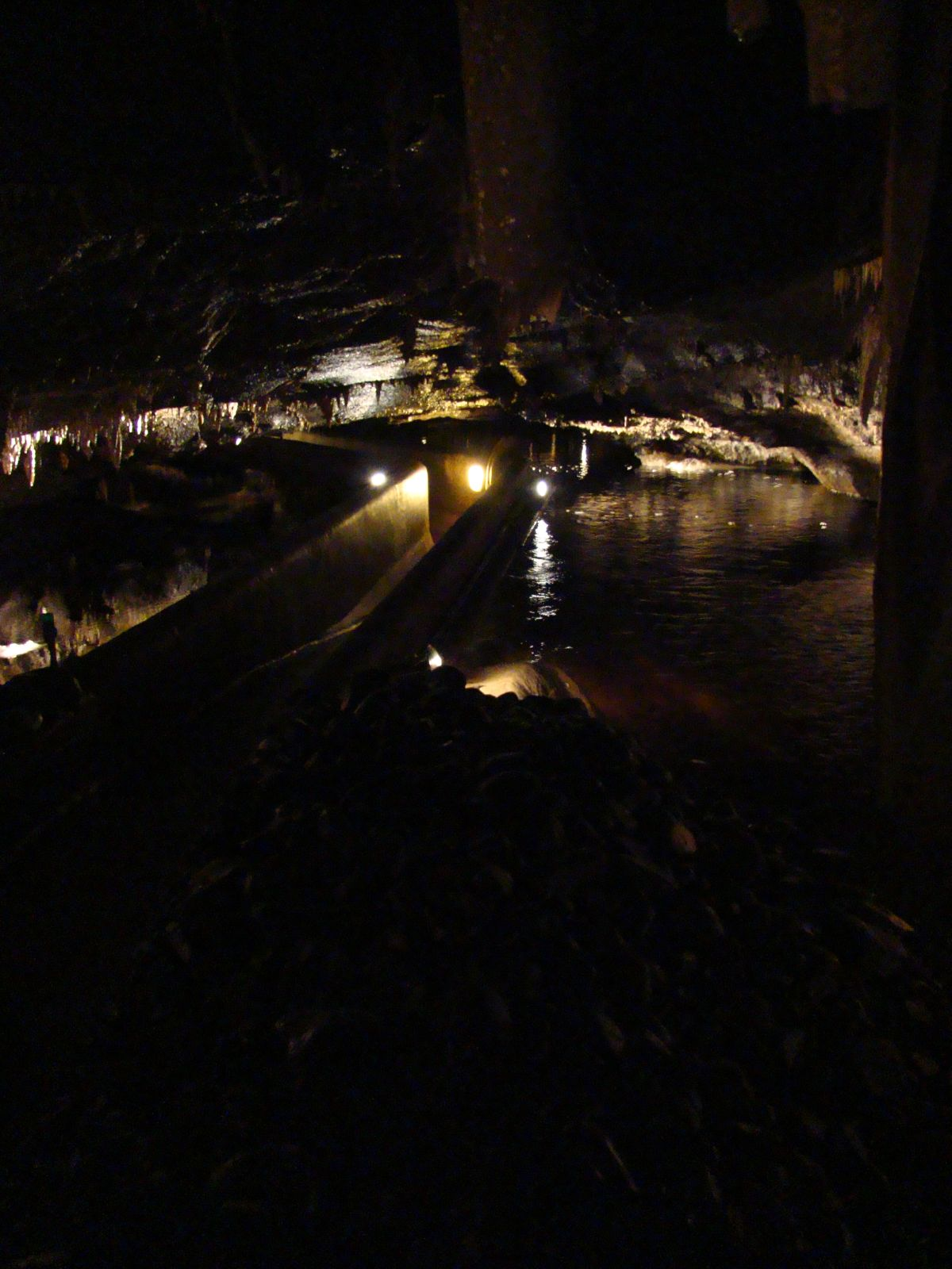 Marble Arch Caves 56